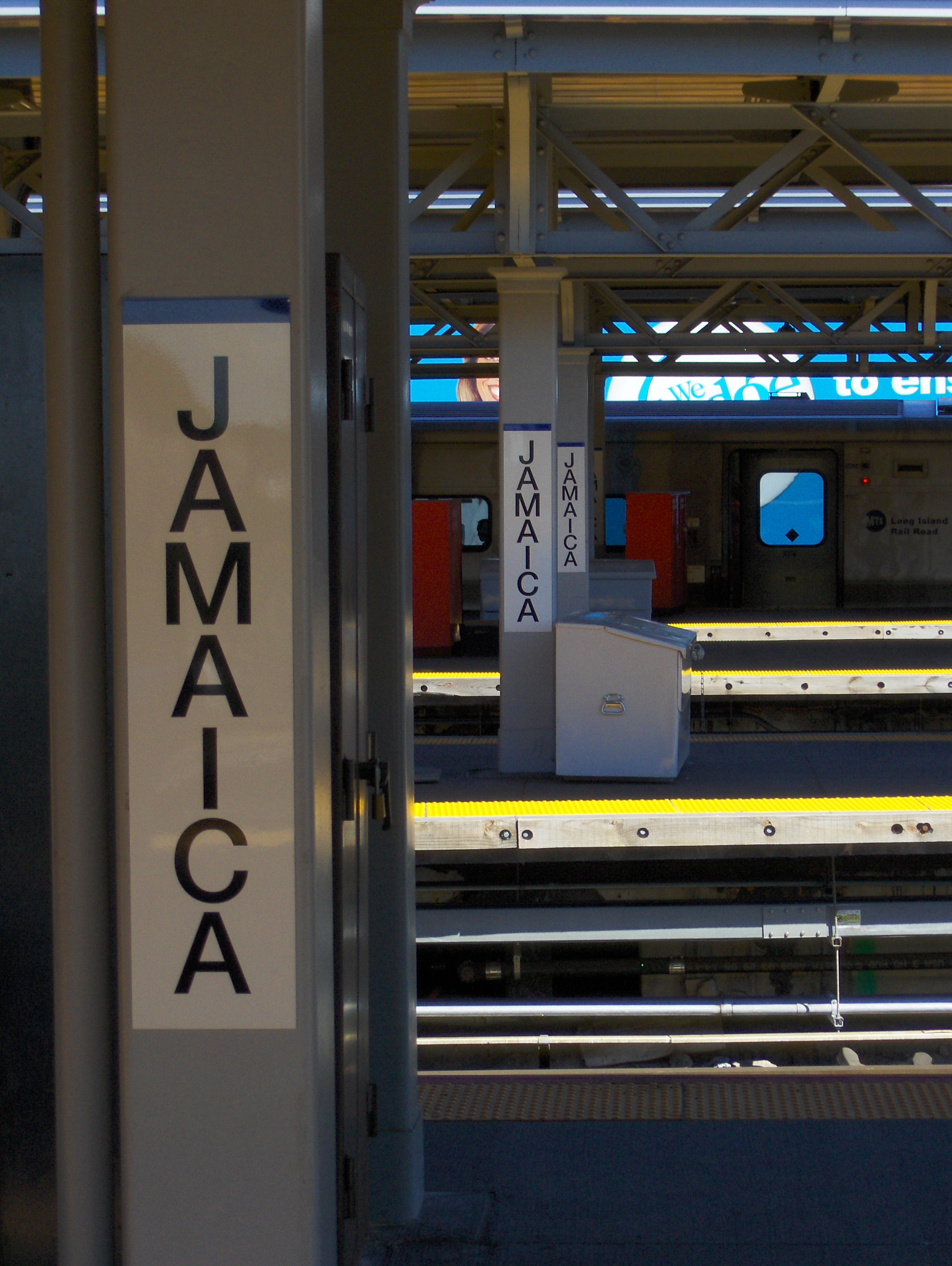 Platforms at Jamaica Station